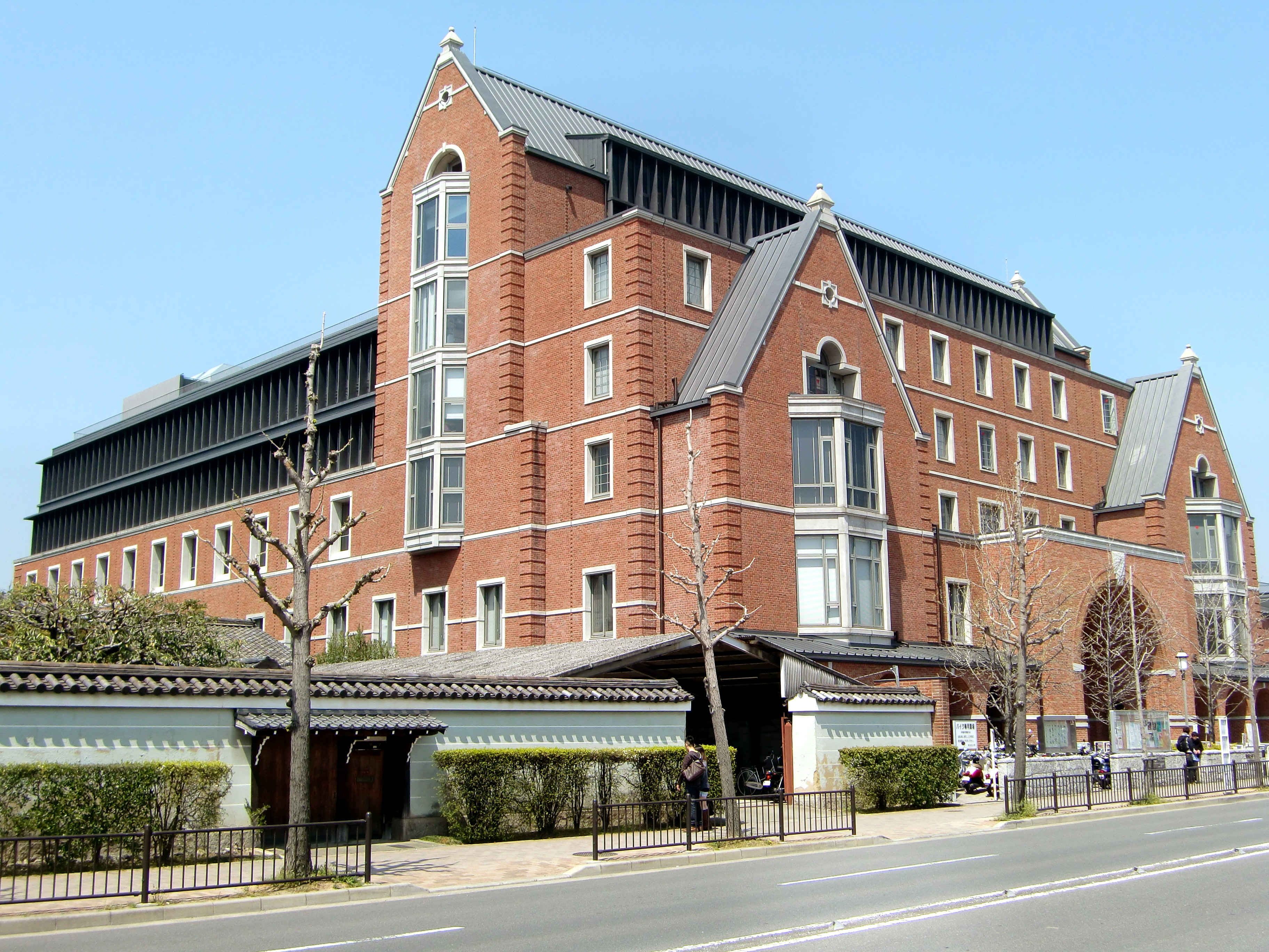 Doshisah University Kambaikan,103 Goshohachimanchou Kamigyo-ku Kyoto Japan